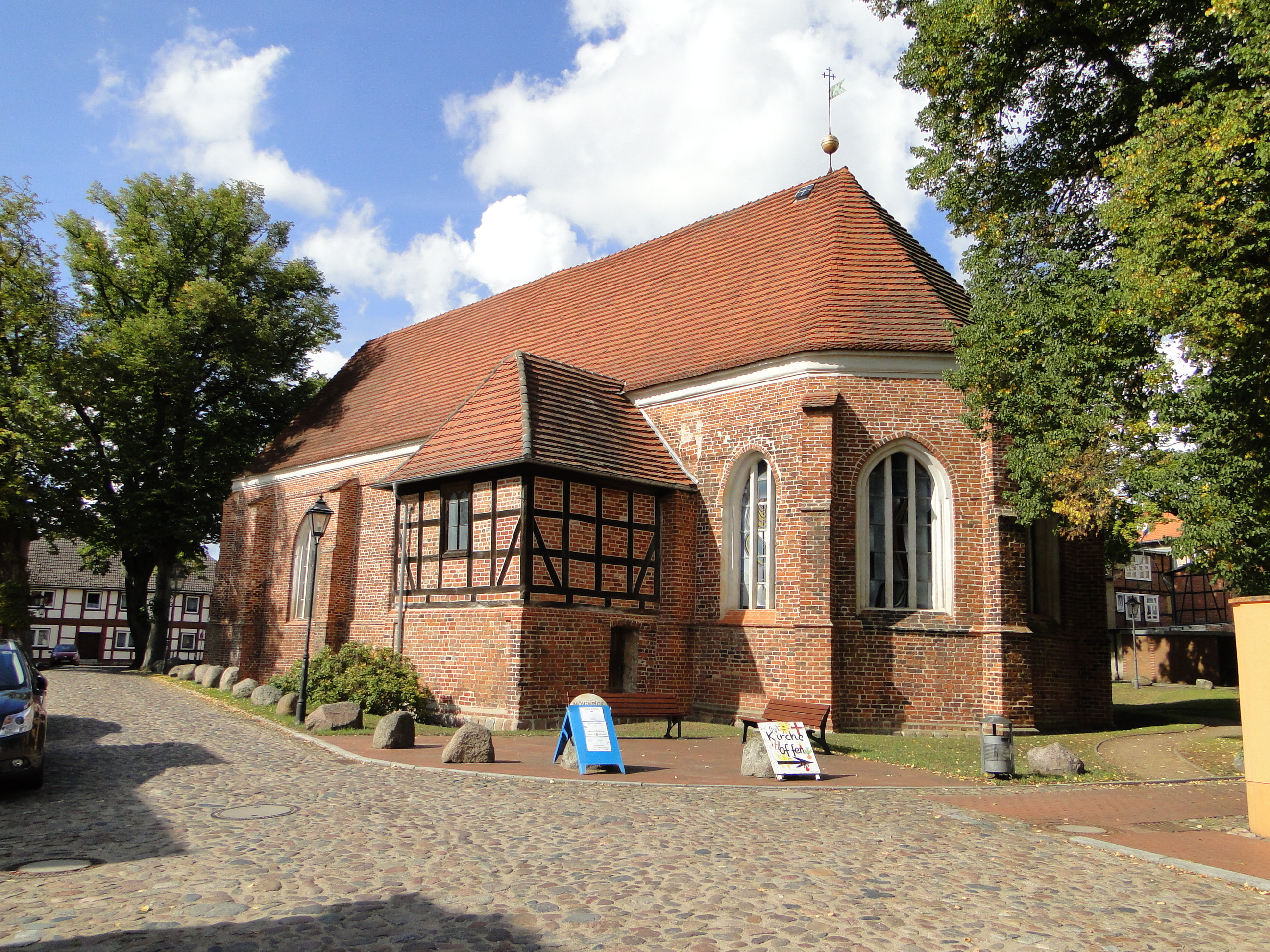 St. Mary's church in Neustadt-Glewe, district Ludwigslust-Parchim, Mecklenburg-Vorpommern, Germany